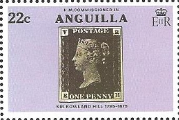 Anguilla 22c Rowland Hill stamp 1979.